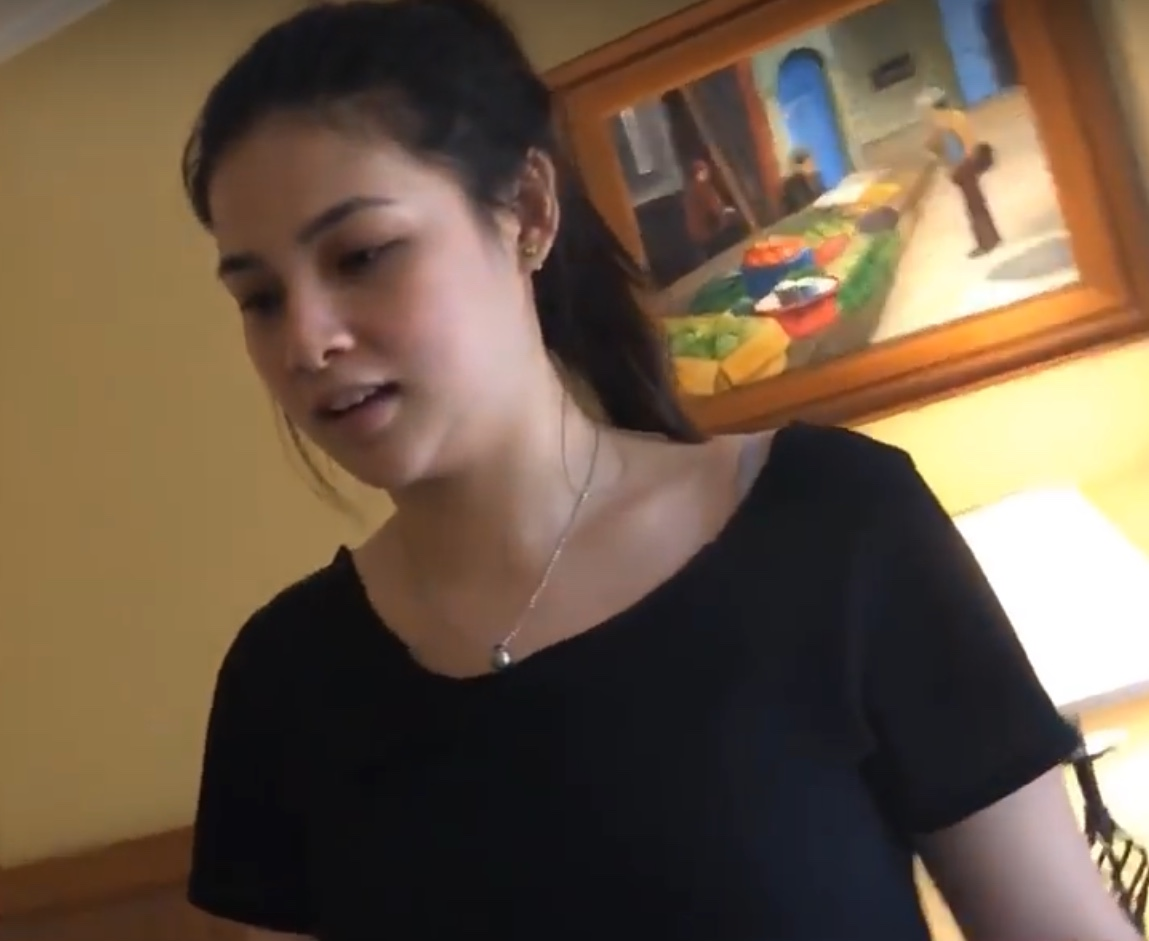 Maika Rivera in Baguio City.